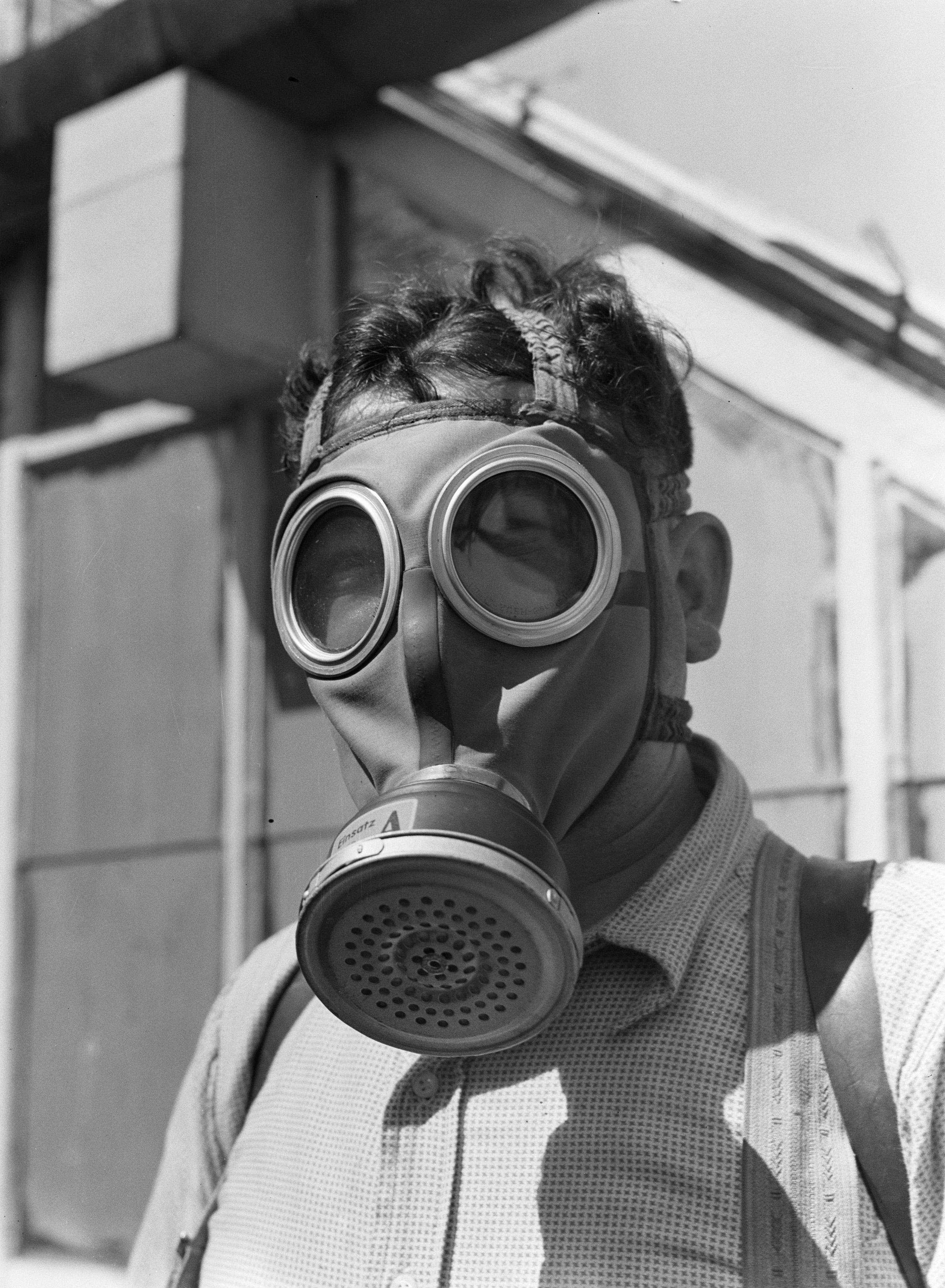 Aalsmeer. an employee of the Baardse nursery with a gas mask against the inhalation of insecticides when spraying plants in the greenhouses